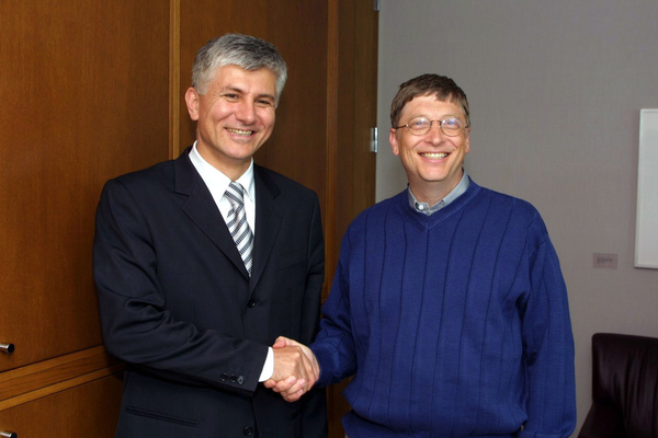 Zoran Đinđić and Bill Gates (William Gates III)